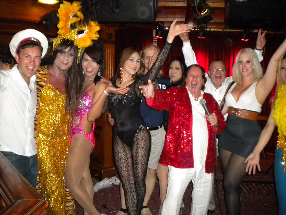 Tony Walter MCs the "Thai Show" with audience participation, some from CabarEngPlace: M/S Cinderella on the Baltic Sea between Stockholm, Sweden, and Mariehamn, Finland